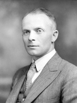 Adélard Godbout, c. 1932. Quebec minister of Agriculture. Later Premier of Quebec in 1936 and from 1939 to 1944.